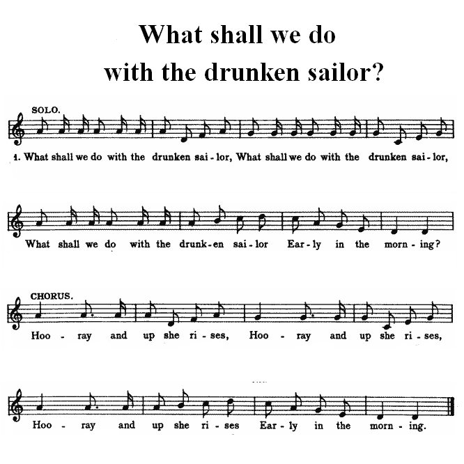 Simplified (one voice) music score for the traditional sea shanty "Drunken Sailor".